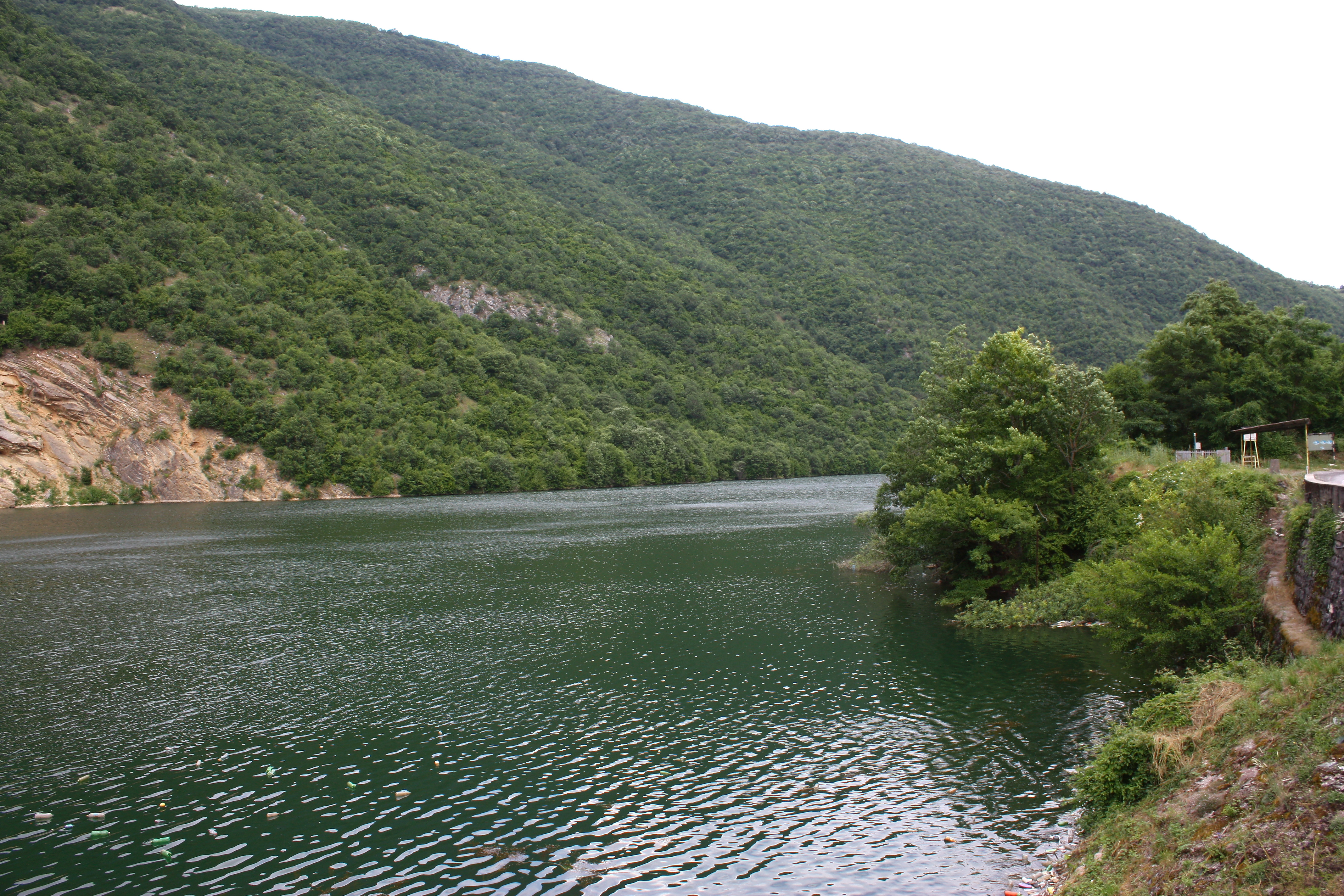 Lake Globočica, Macedonia